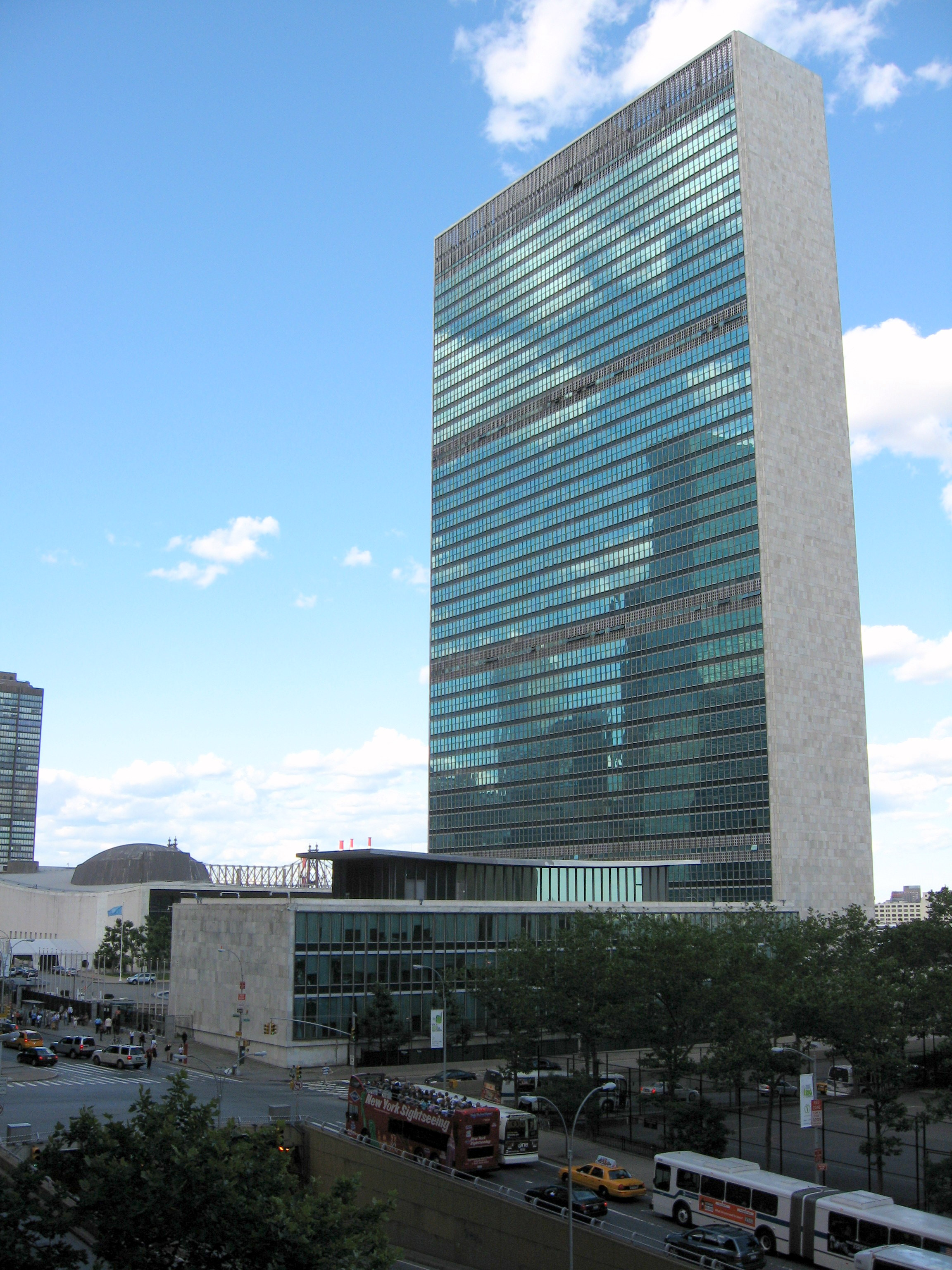 United Nations headquarters as seen from southern Tudor City, on the east side of Manhattan, in New York City.